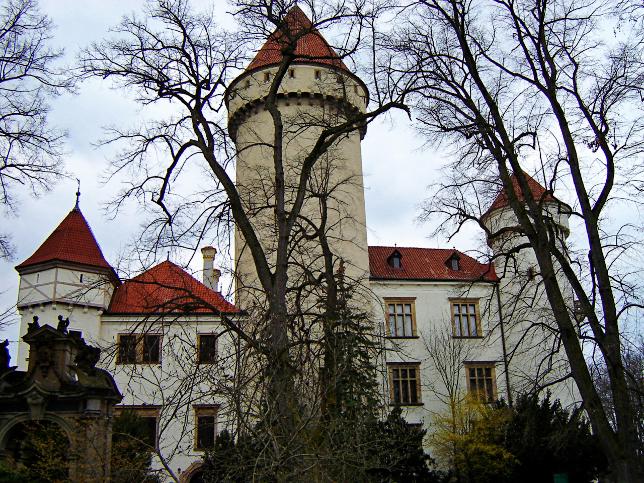 Konopiště Castle